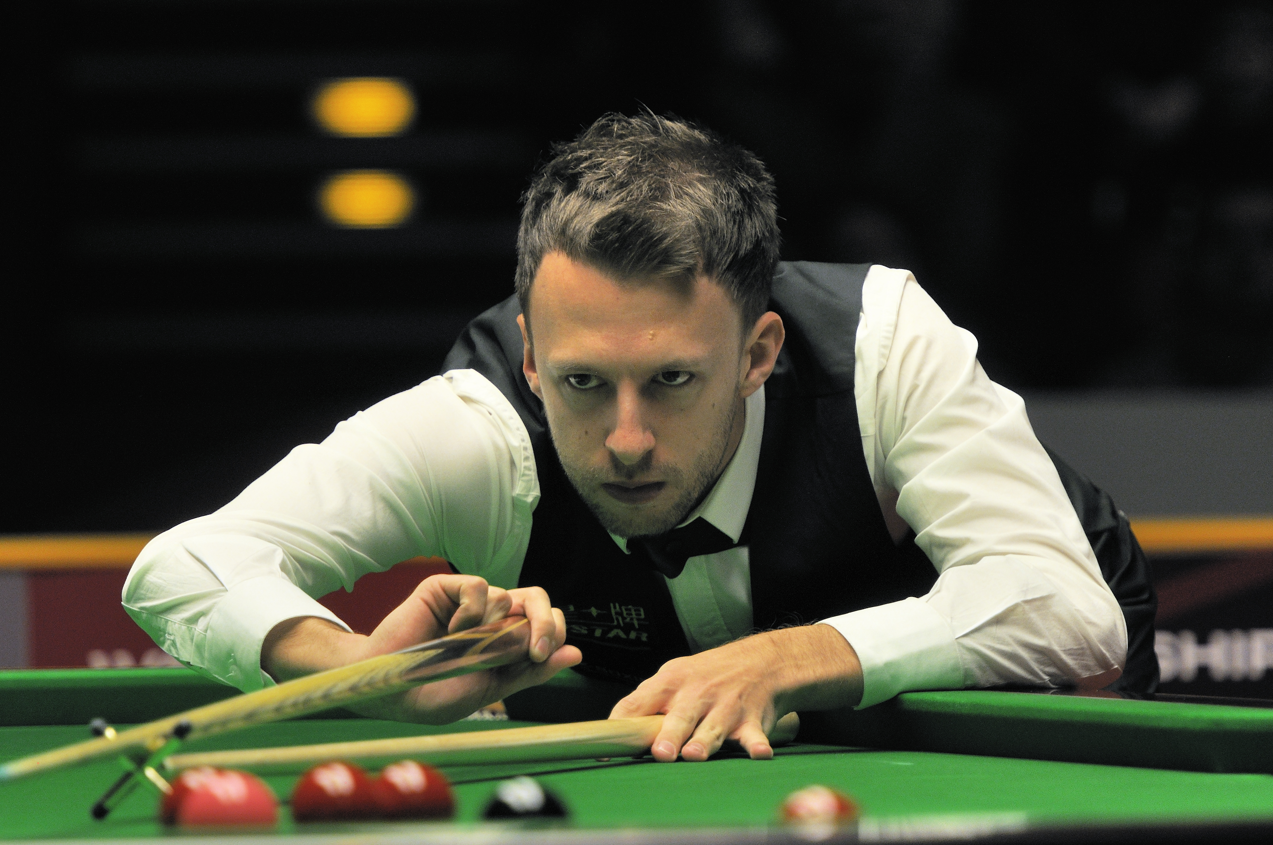 Picture taken in Berlin during the Snooker German Masters in 2014. Judd Trump.